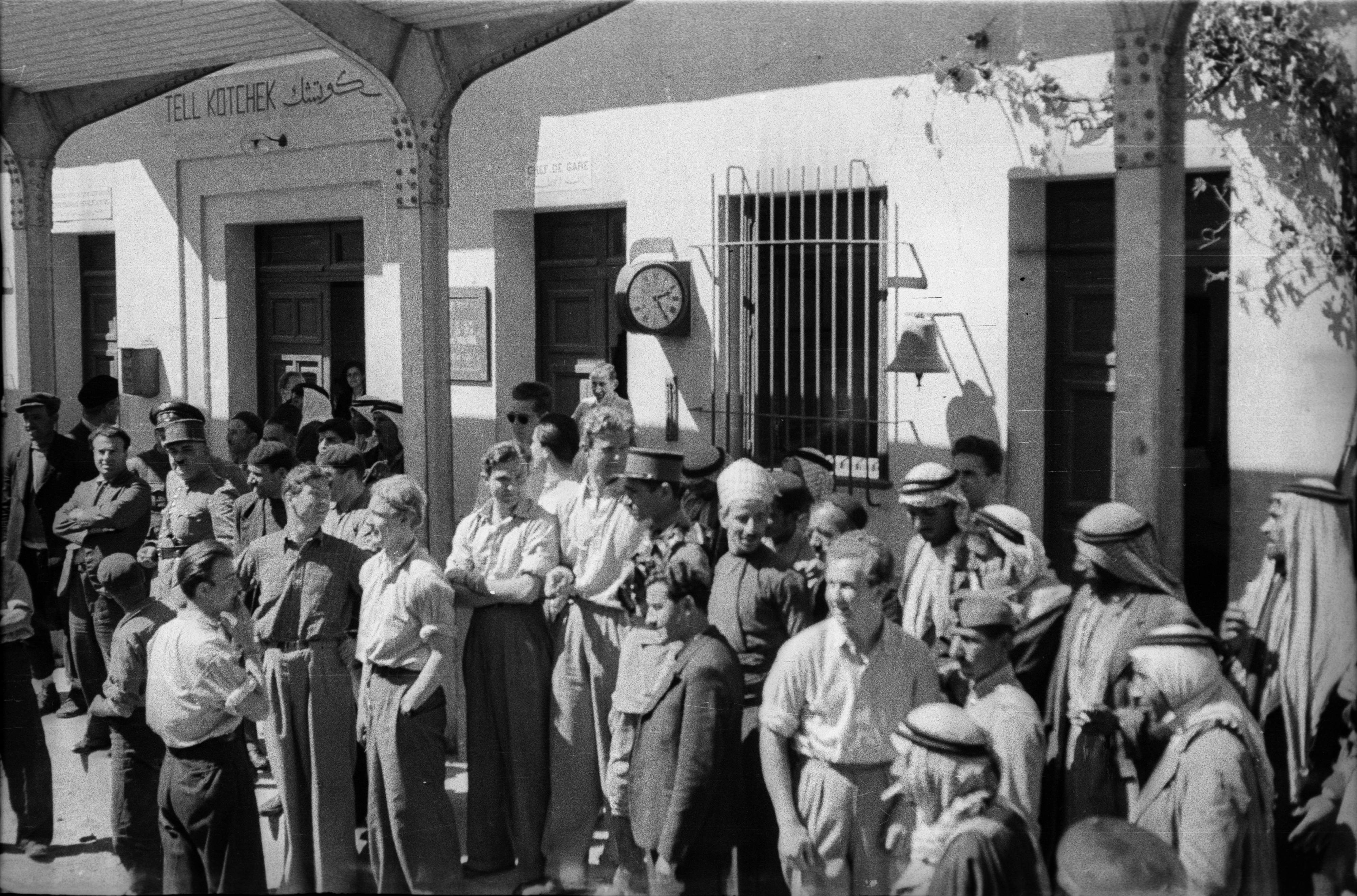 French-Syrian customs officials and others at the Syria-Iraq border town of Tell Kotchek (today, Al-Yaarubiyah).